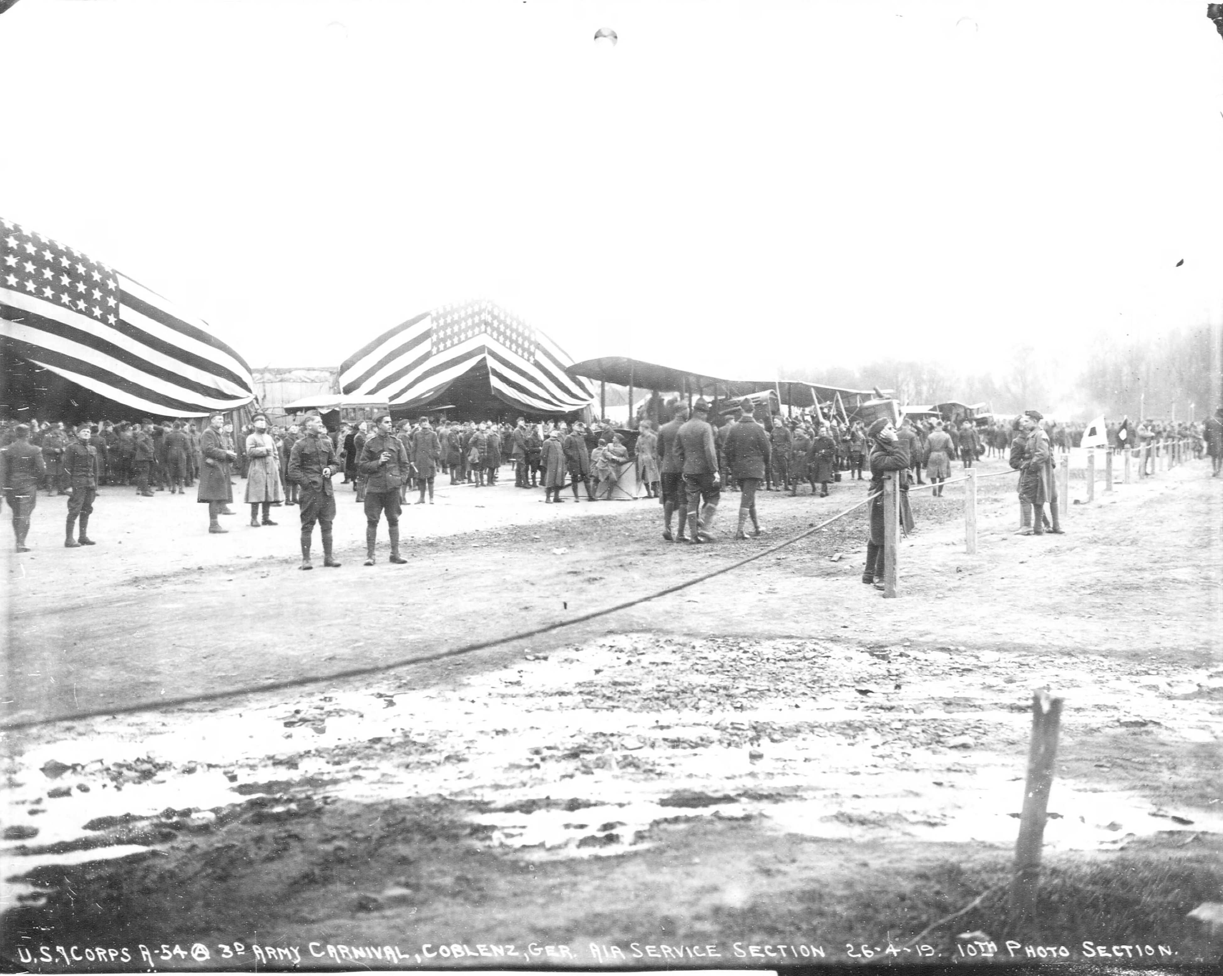 Third Army Coblenz Air Show - April 1919.